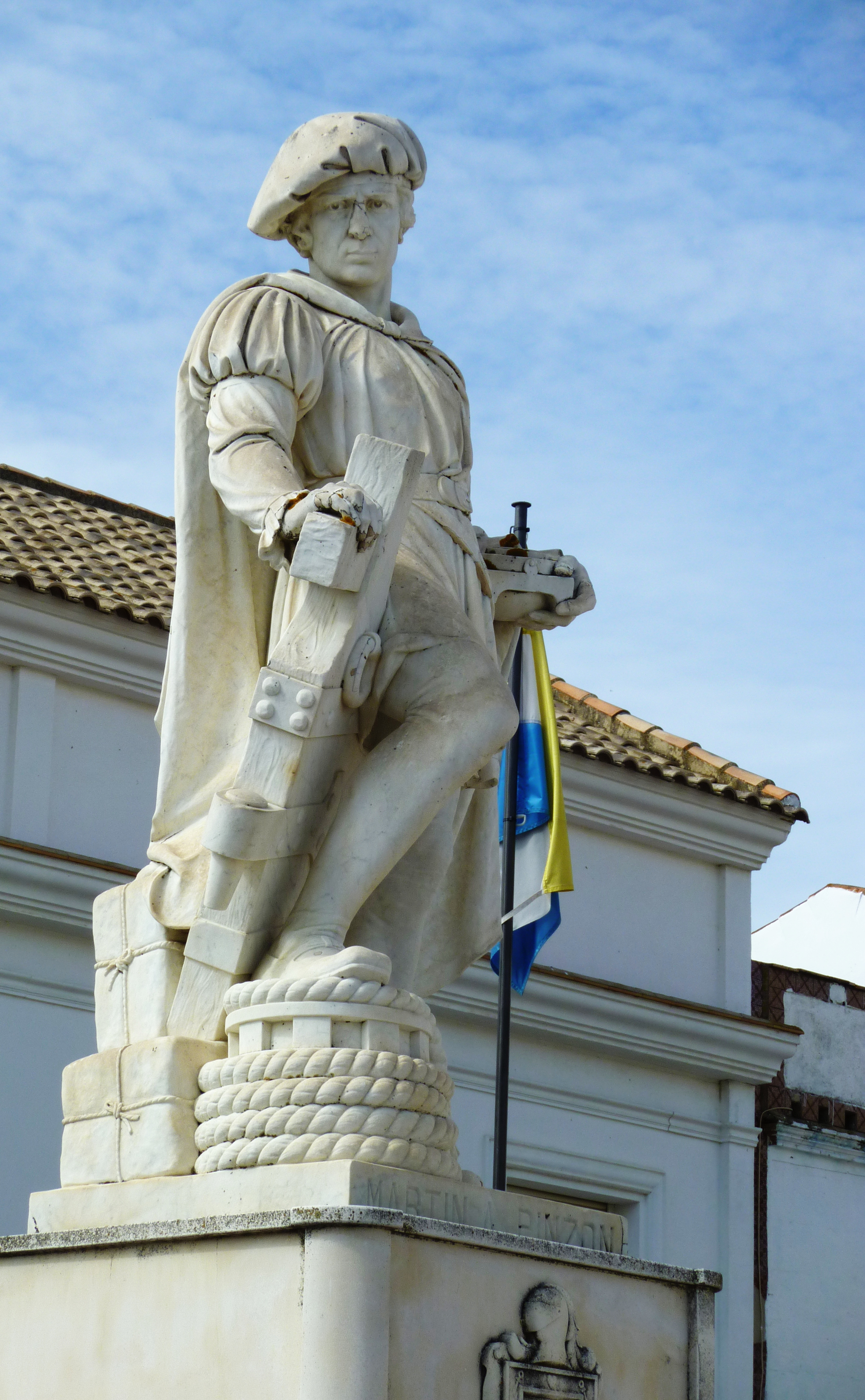 Statue of Martín Alonso Pinzón in Palos de la Frontera